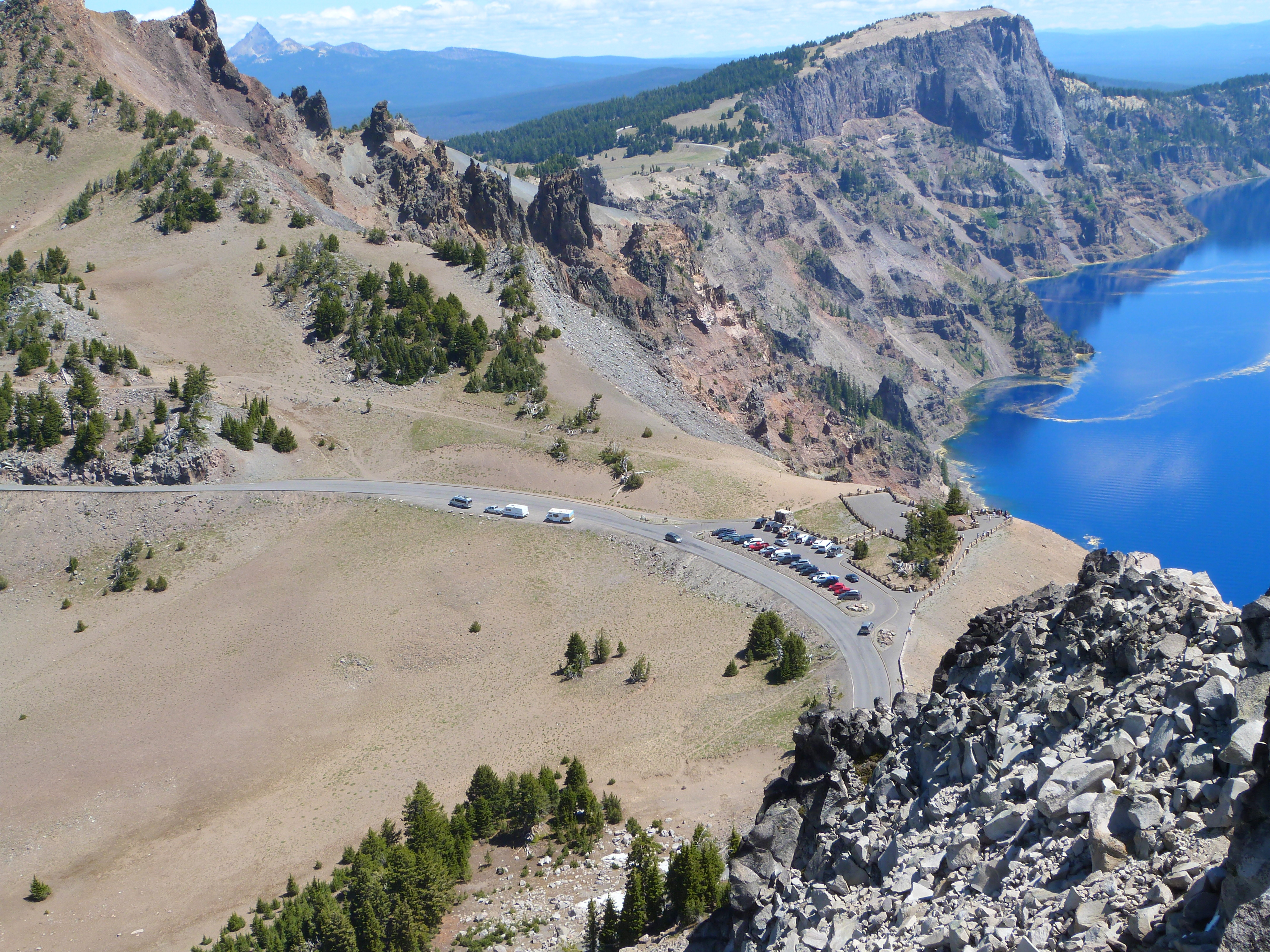 View to the north from the Watchman Trail, including a segment of Rim Drive and the Watchman Overlook, Crater Lake National Park, Oregon, United States. (Note that the overlook is a noncontributing feature of the National Register-listed Rim Drive Historic District.)